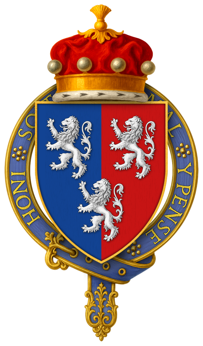 Sir William Herbert, 1st Baron Herbert, KG BURKE, Sir Bernard, The General Armory of England, Scotland, Ireland, and Wales; Comprising a Registry of Armorial Bearings from the Earliest to the Present Time, London: Harrison & Sons, 1884. “ Herbert (Earl of Pembroke and Huntingdon, and Baron Herbert of Herbert…) Per pale az. and gu. three lions ramp. ar. ”